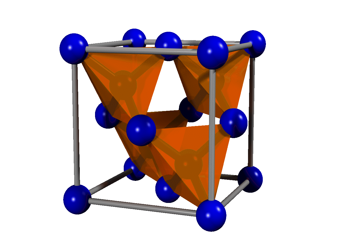 Unit cell of the diamond structure, emphasizing tetrahedral units and the face-centered Bravais lattice.